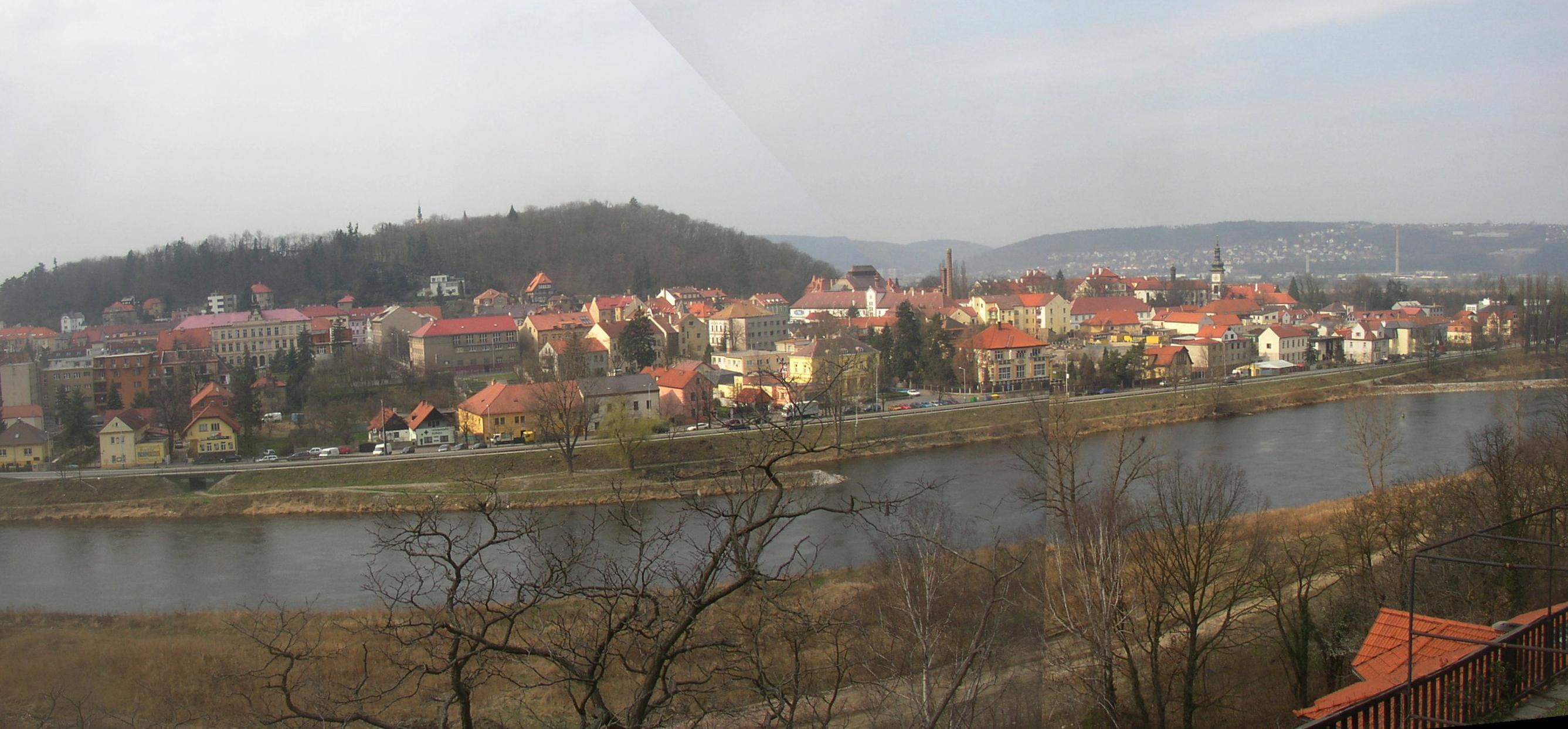 Panoramic view of Prague district of Zbraslav with Havlín (St Gall Hill).